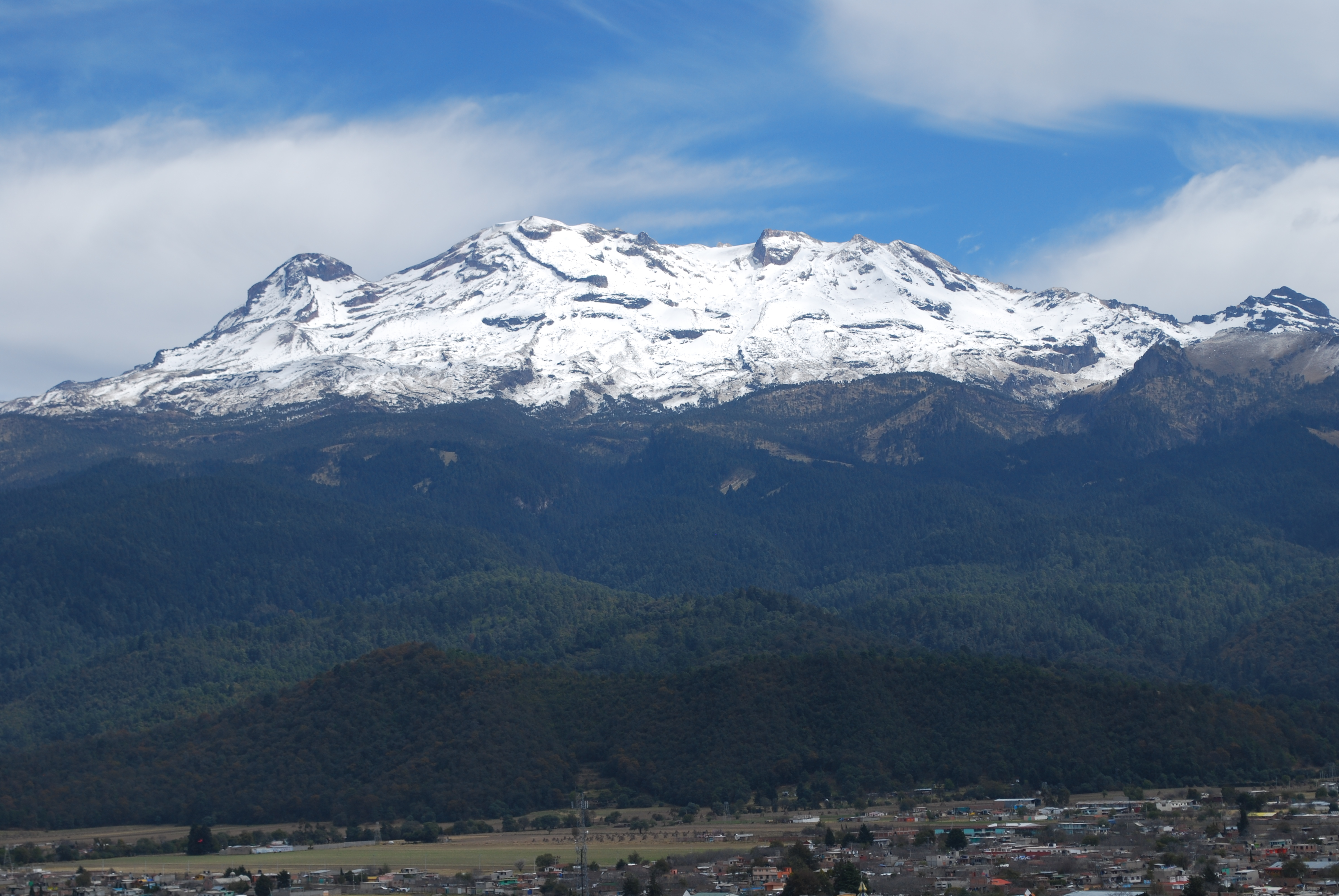 View of the Iztaccihuatl volcano from Amecameca, Mexico State